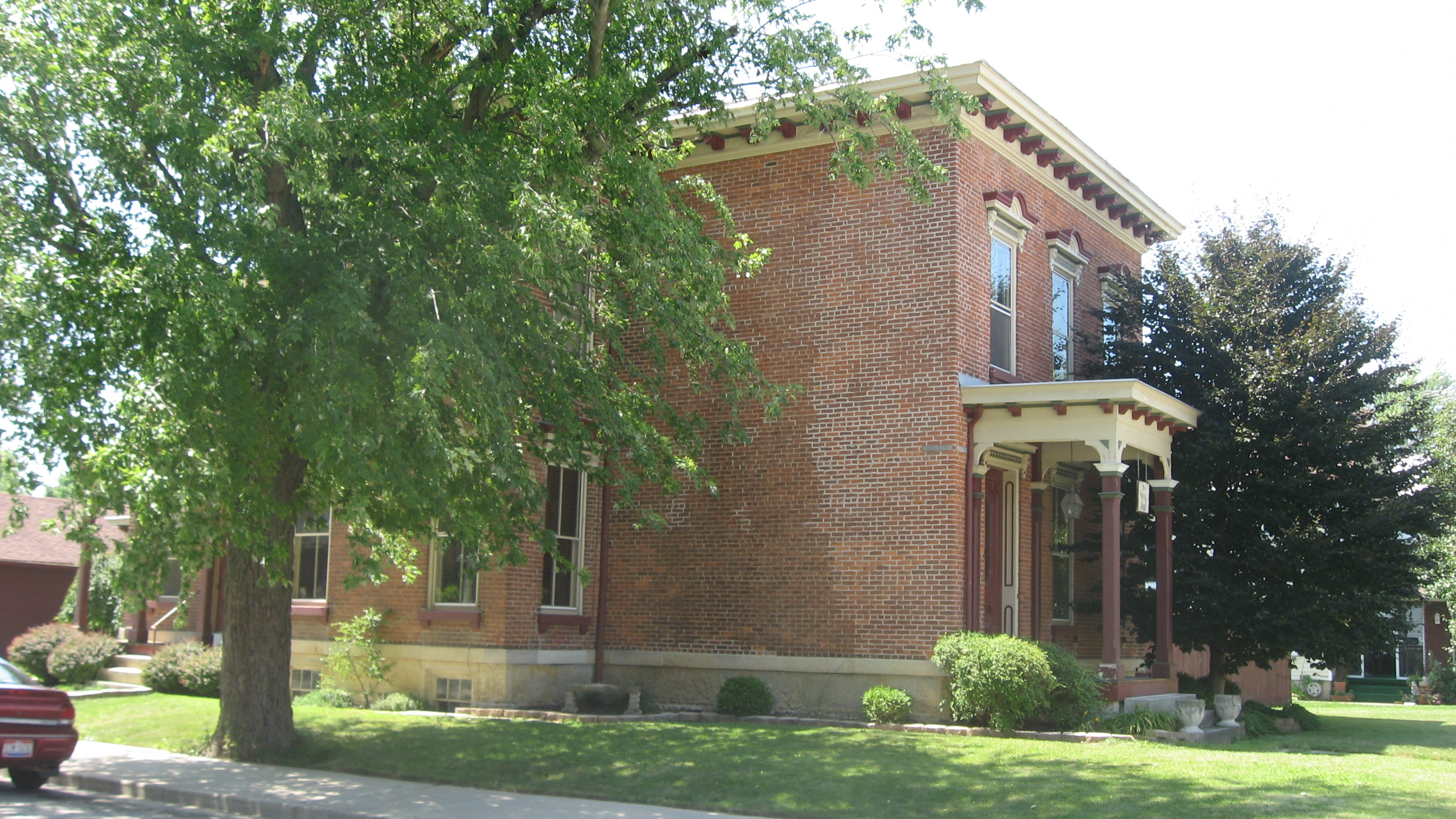 Front and southern side of the Waring House, located at 304 W. Third Street in Greenville, Ohio, United States. Built in 1869, it is listed on the National Register of Historic Places.